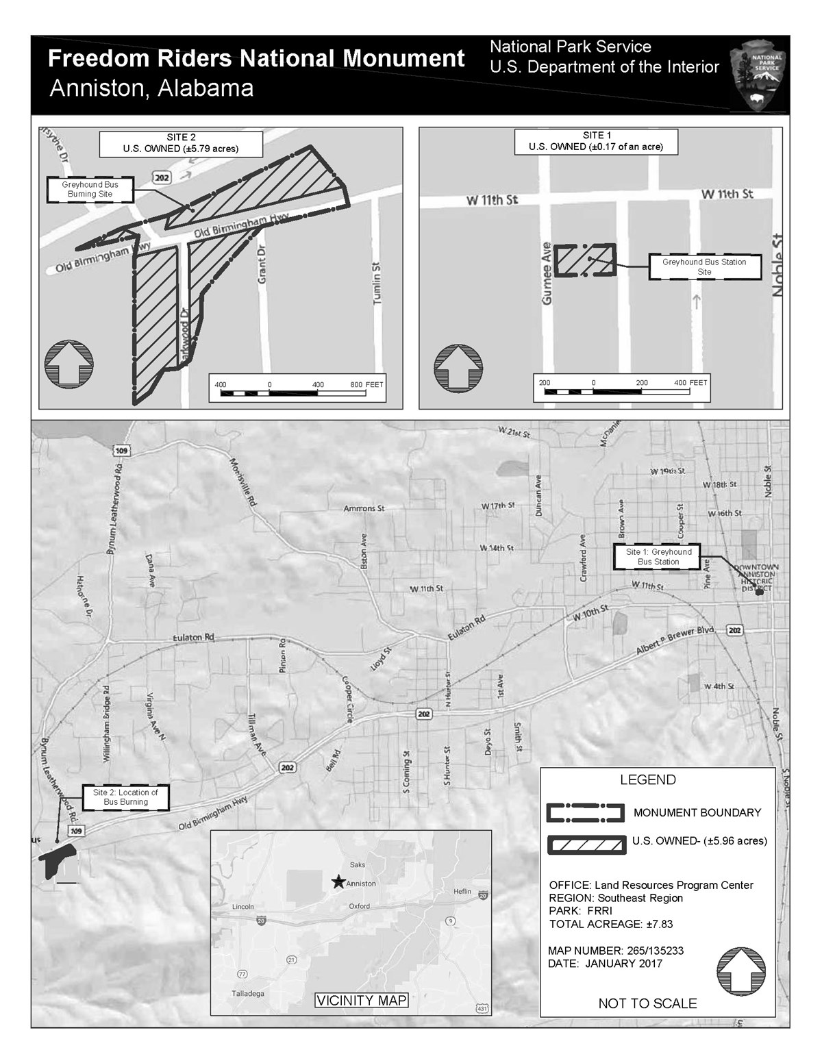 Map of Freedom Riders National Monument, Anniston, Alabama